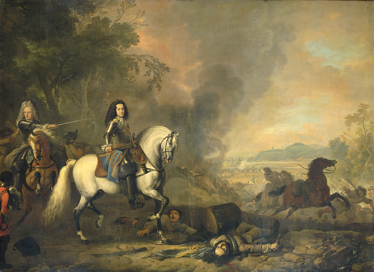 Equestrian portrait of Henry Casimir II, Prince of Nassau-Dietz, as commander in a battle. Behind him an officer is riding with his sword raised. On the foreground a black boy with the prince's helmet. On the ground dead and wounded soldiers are laying as well as a drum and a banner. To the right the battle itself can be seen through clouds of smoke.